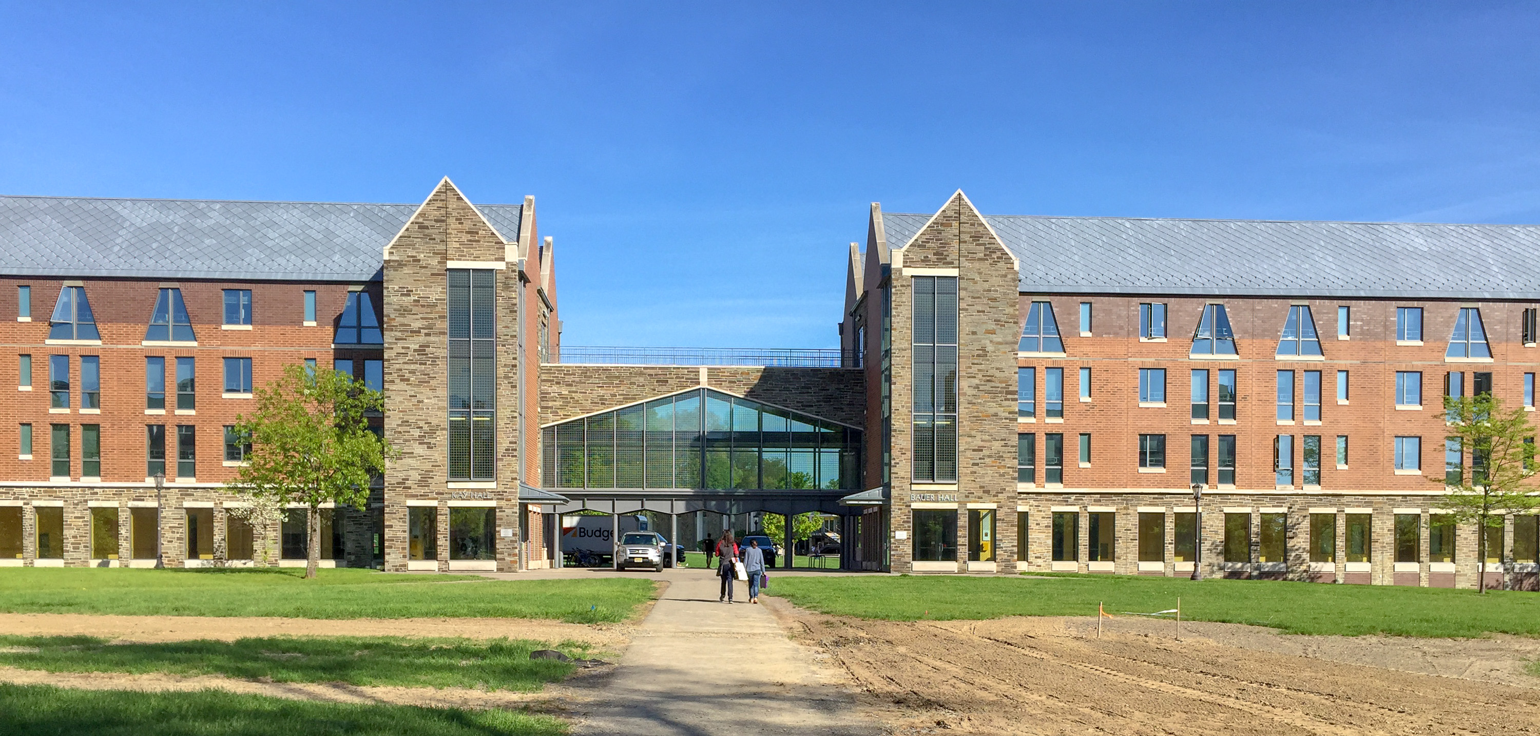 Kay Hall (left) and Bauer Hall (right), two North Campus dormitories at Cornell University, Ithaca, NY